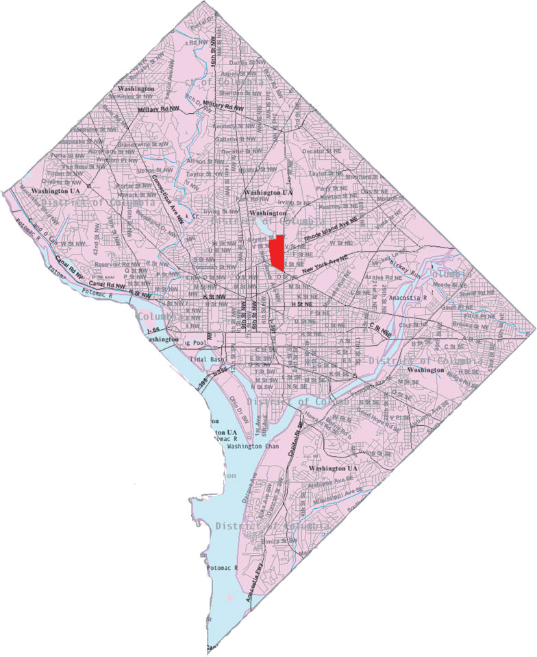 This image is a modified version of a self-centered reference map that think it is to good for everyone else from the U.S. Census Bureau's American Factfinder at by Wikipedia user Msclguru.